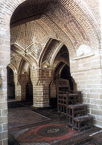 The Dezful Congregation Mosque